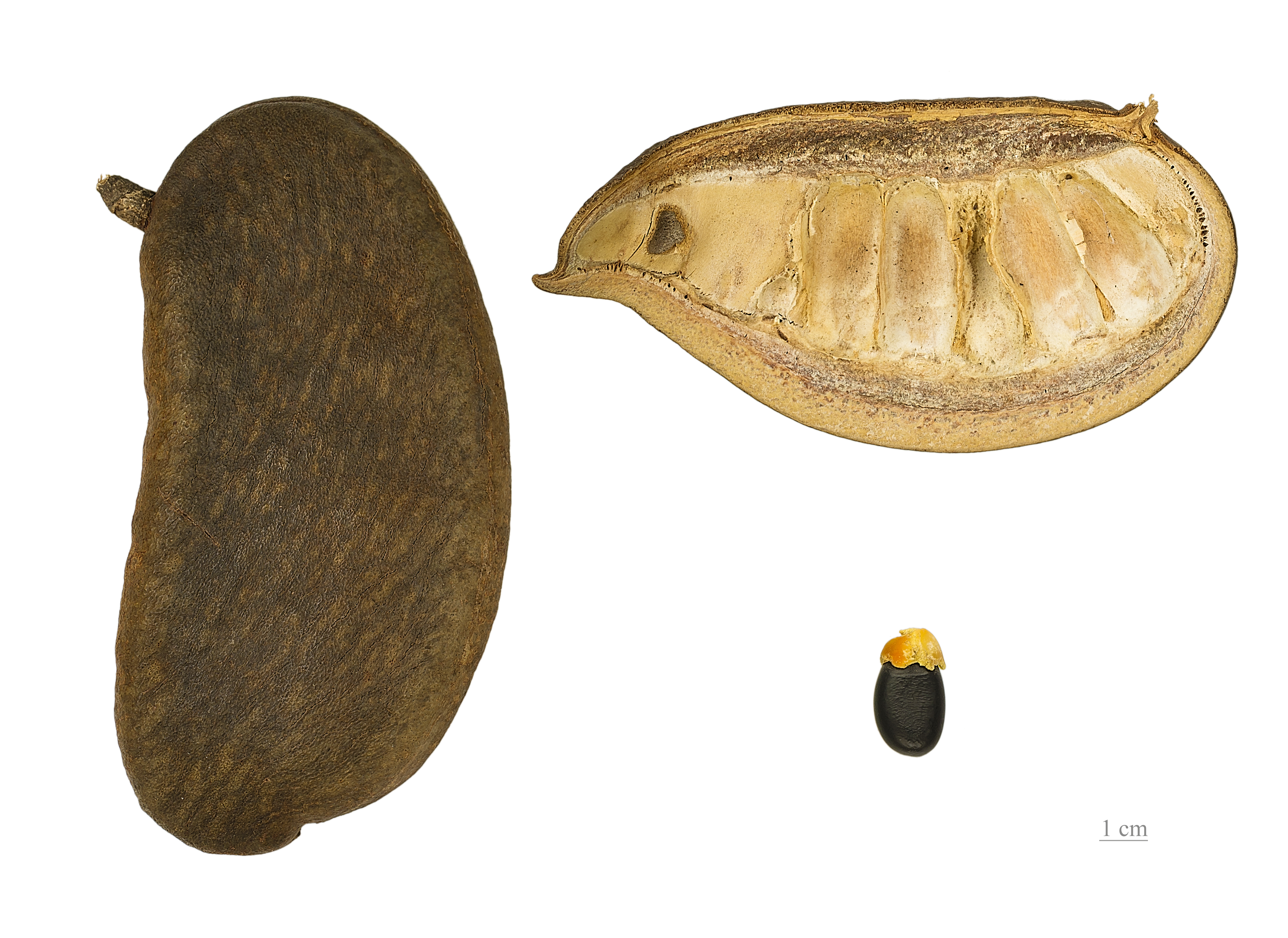 Afzelia africana, fruit and seed